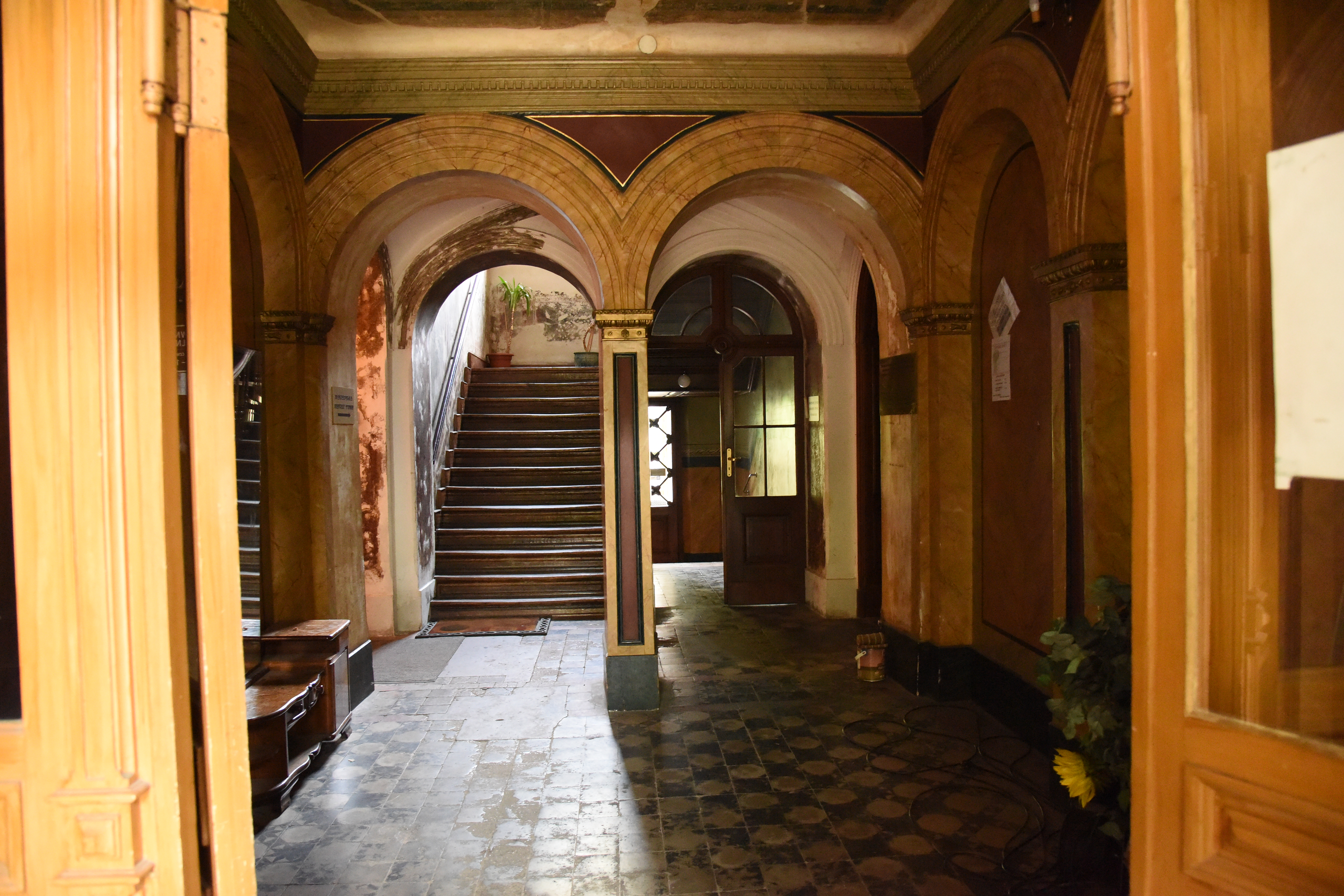 Karol Gebhardt's house in Łódź – Interior